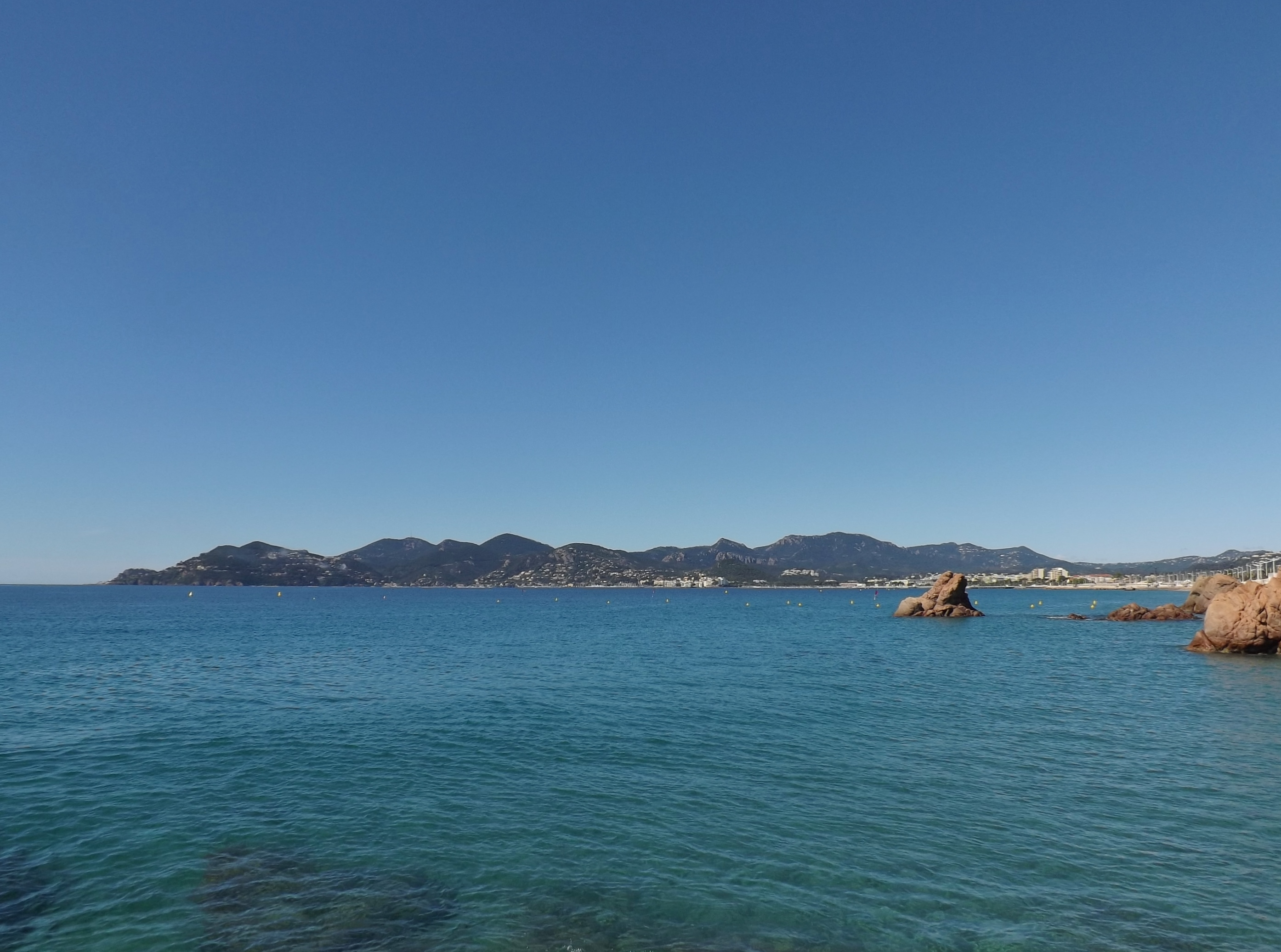 Sight of the Esterel mountains seen from the coast of Cannes, in Alpes-Maritimes, France.